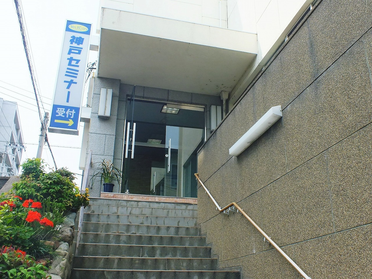 KOBE SEMINAR 学校法人 村上学園 予備校神戸セミナー